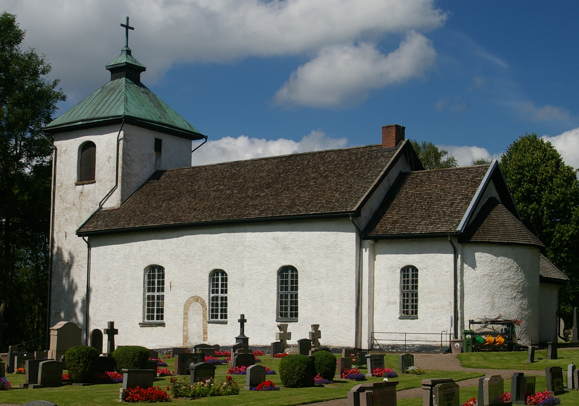 Kinneveds kyrka (Swedish:Church of Kinneved) in Västergötland, Sweden.